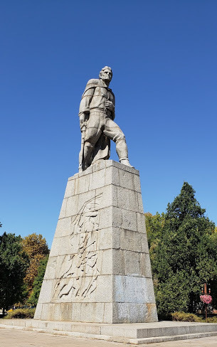 September Uprising Monument